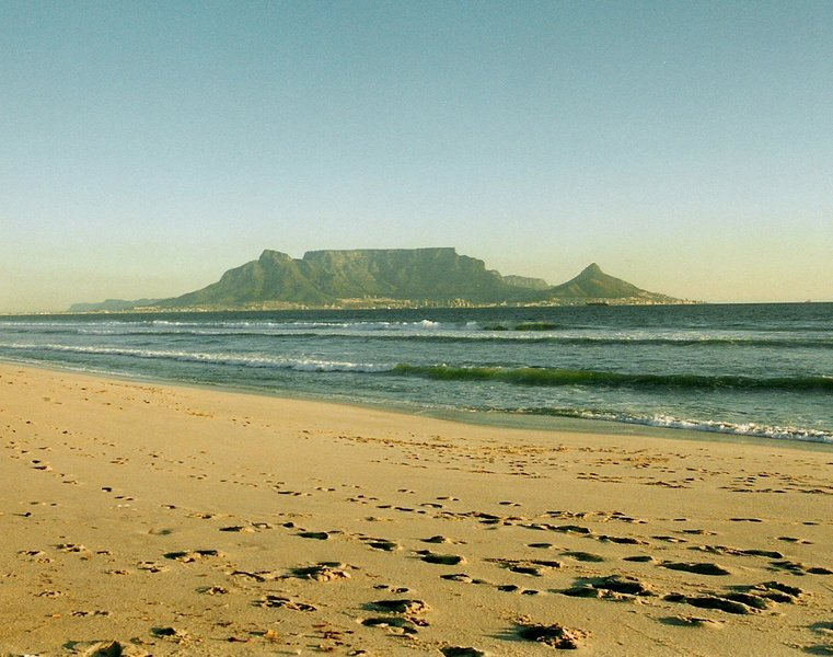 Bloubergstrand offers one of the best views on Table Mountain